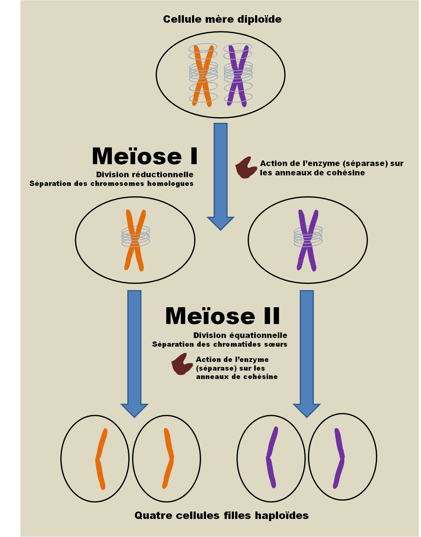 schema d'ensemble sur la cohesine